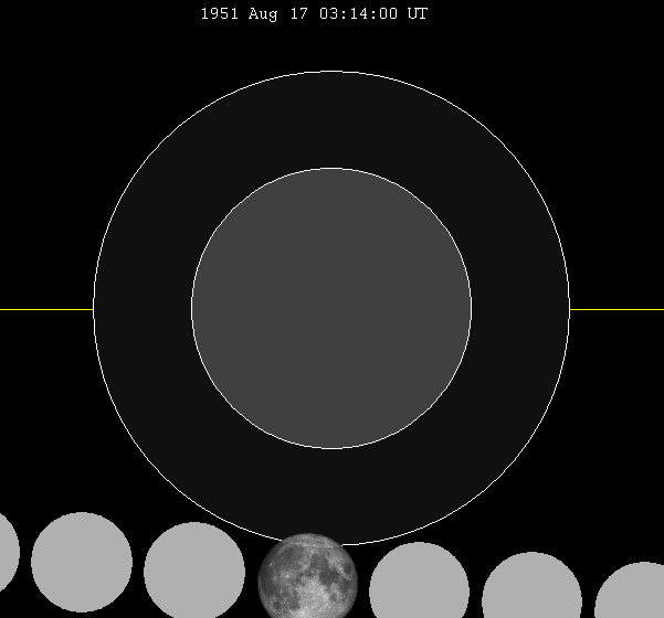 August 1951 lunar eclipse chart of moon's path through the earth's shadow. thumb